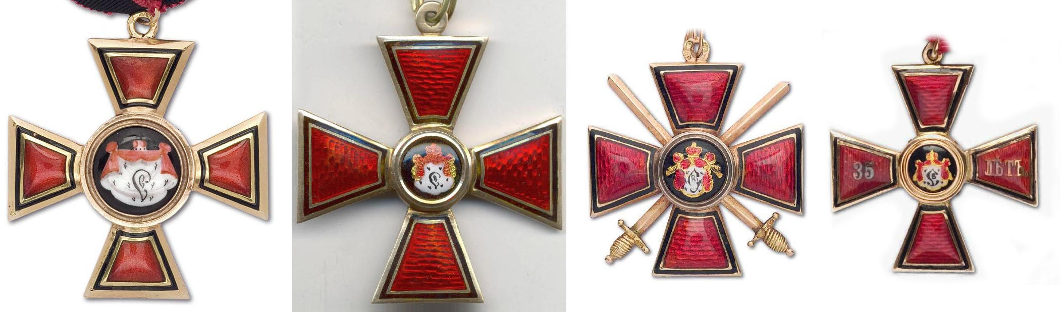 Order of St Vladimir Badges 3-4